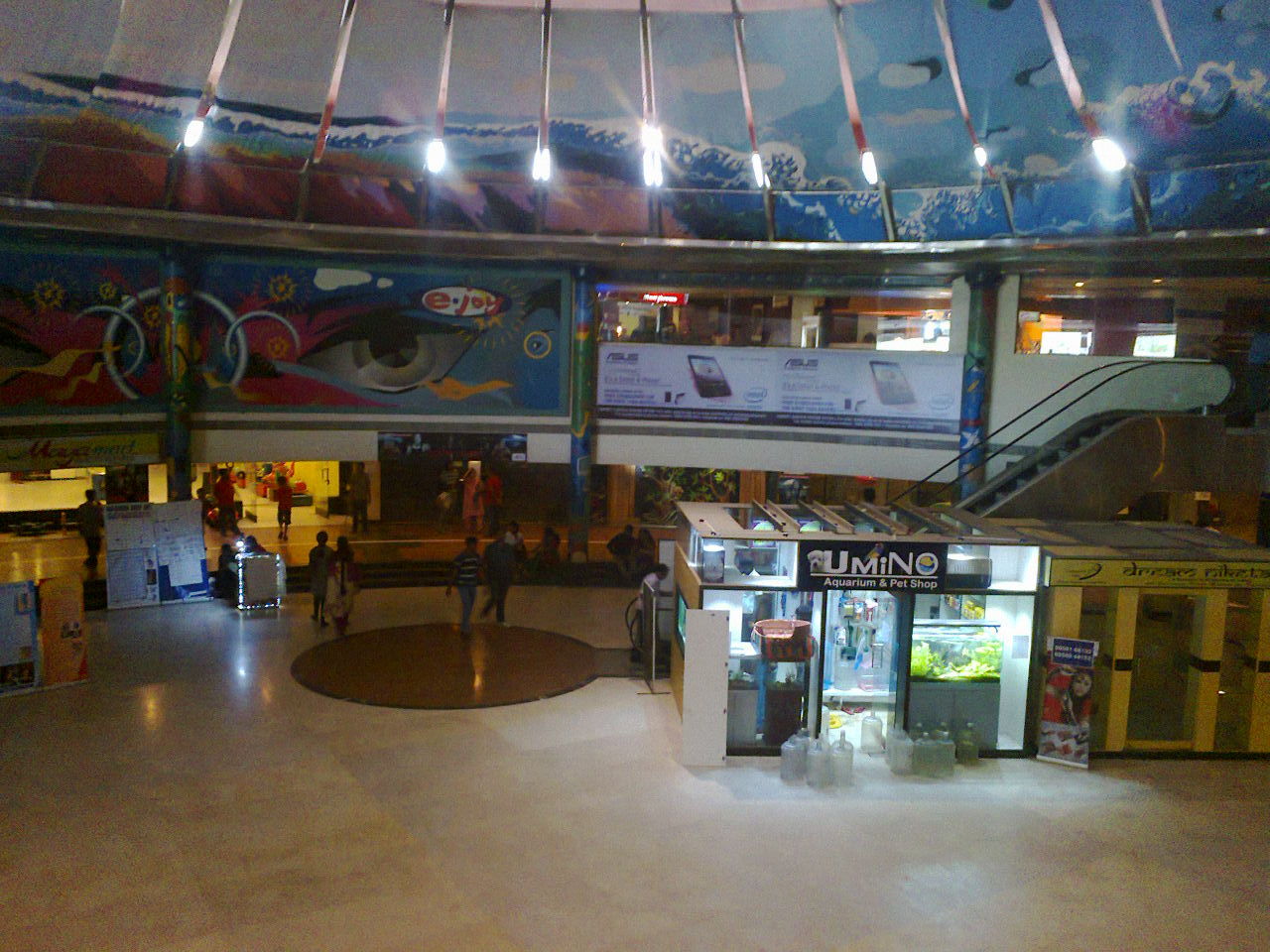 Mayajaal